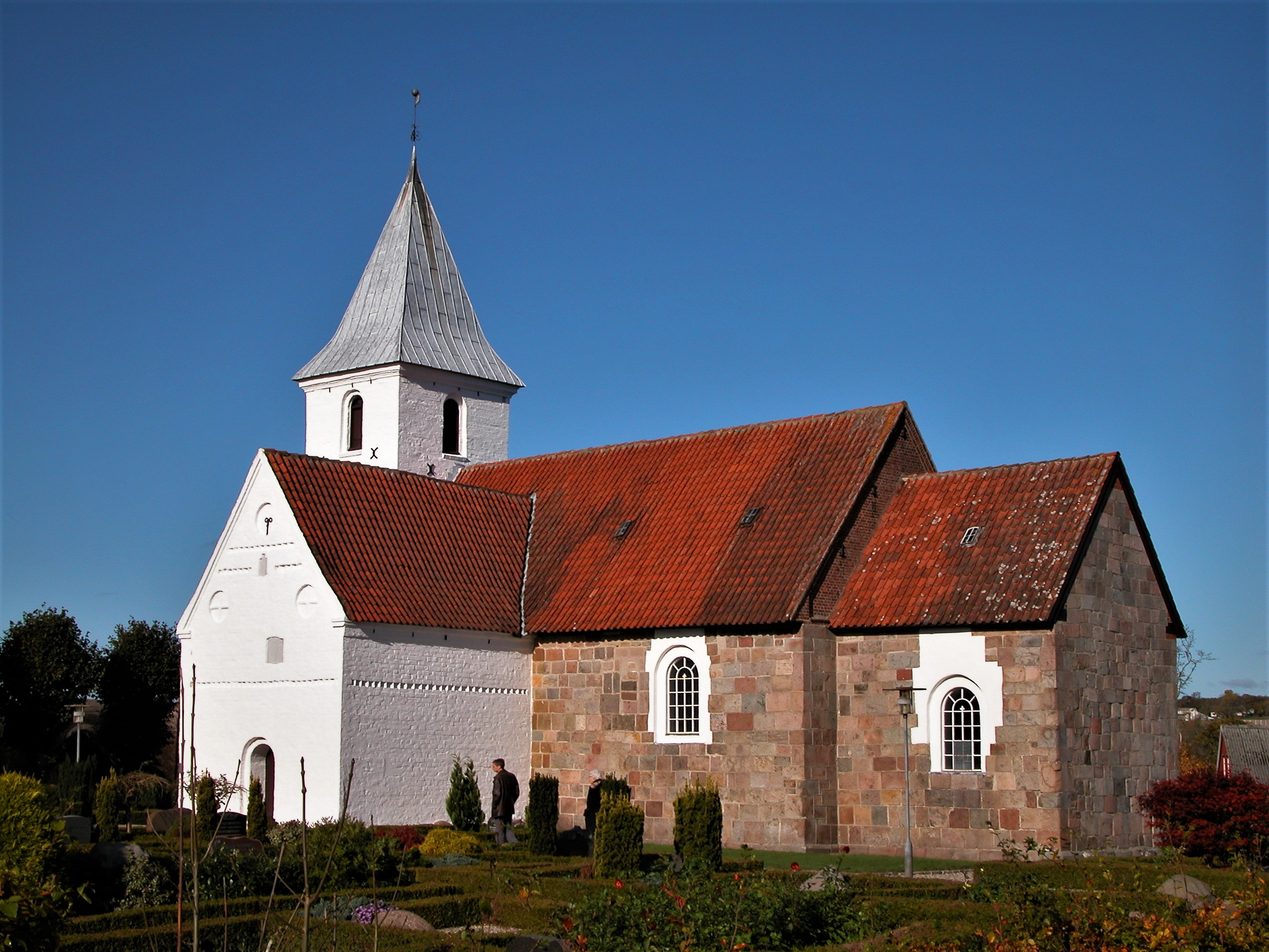 Church of Borum, West of Aarhus, Denmark